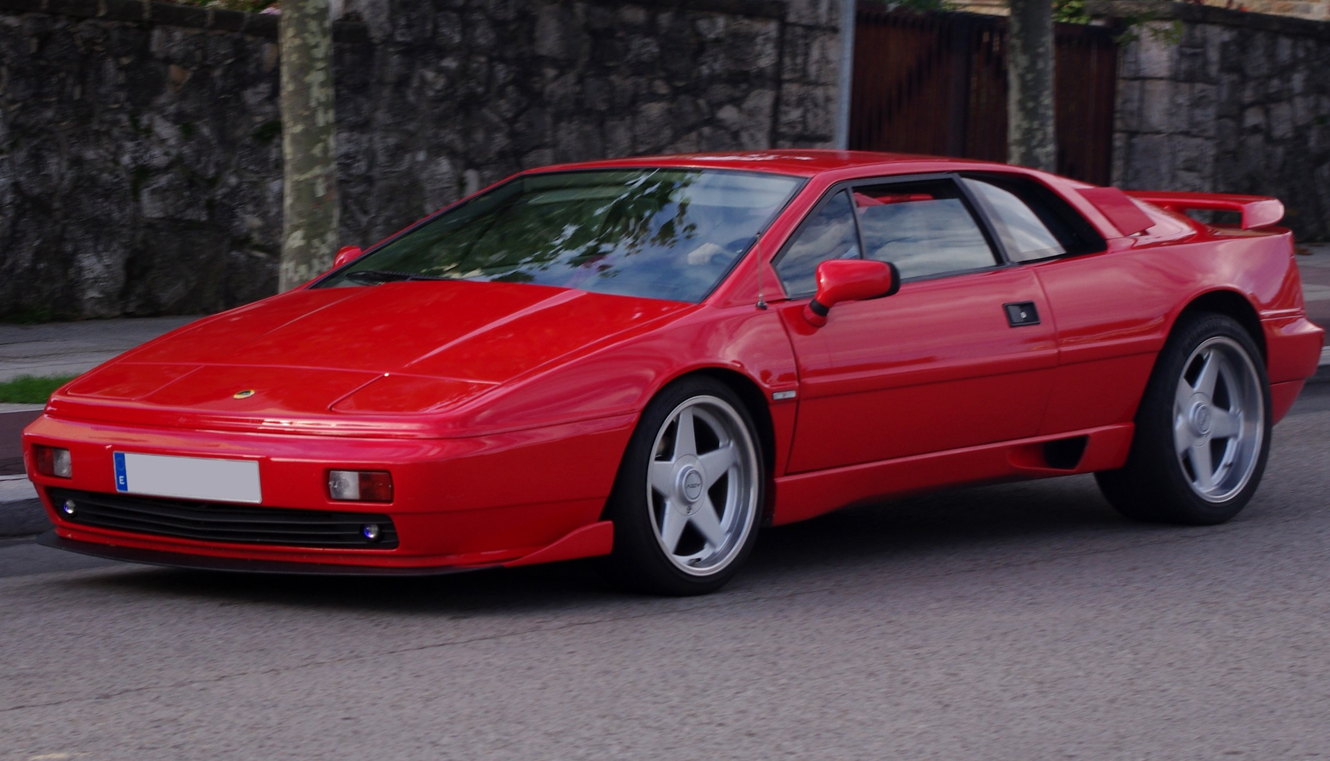 2008 plates. Probably imported that year.